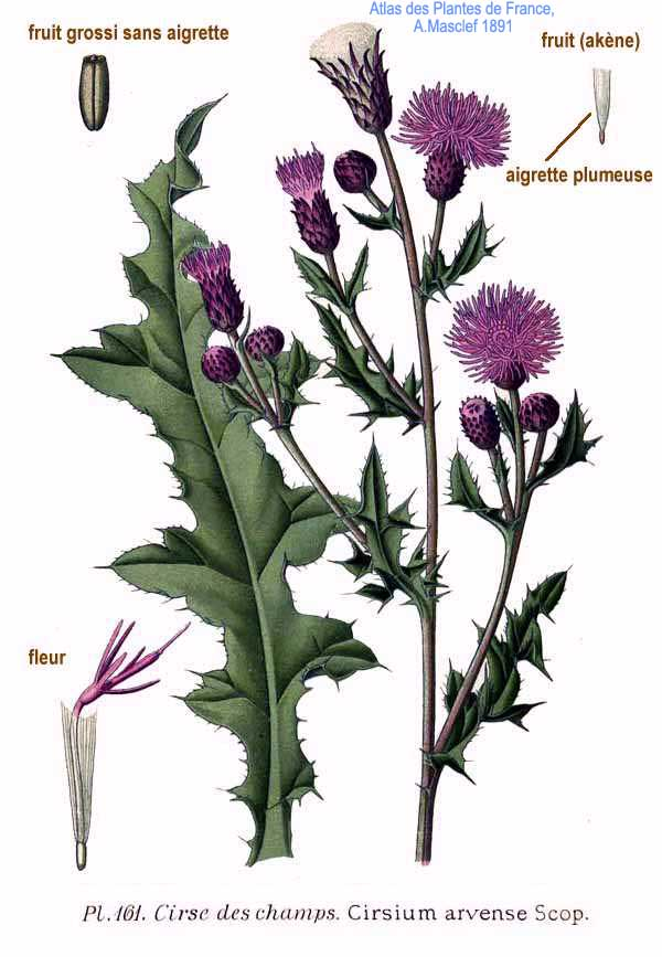 Cirsium arvense Scop.